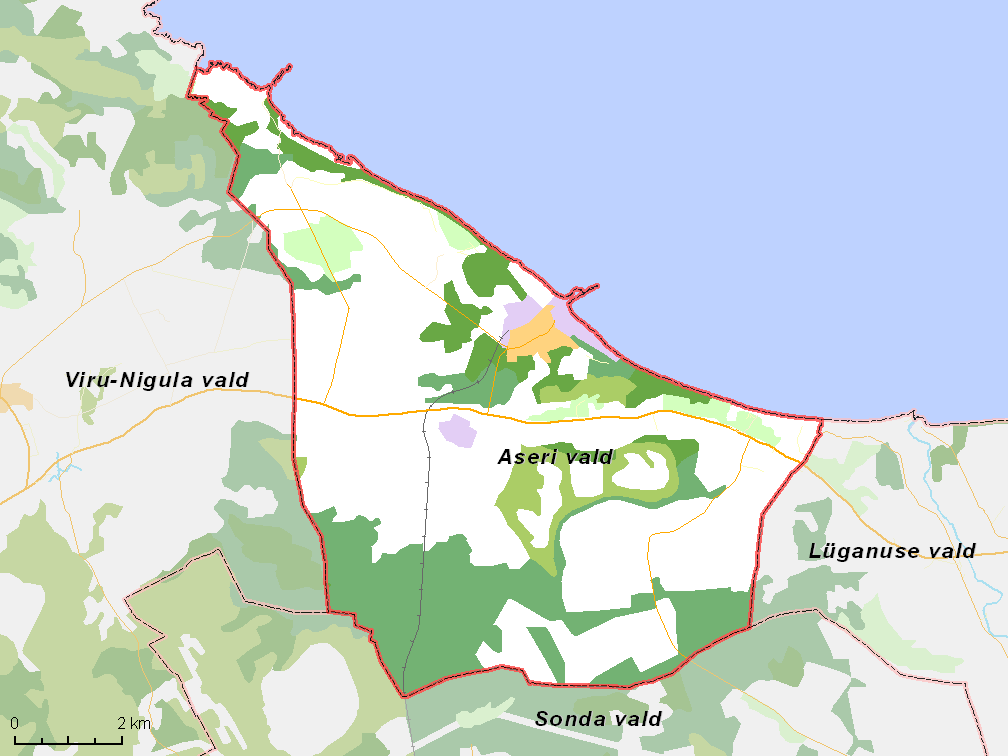 Map of municipality in Estonia